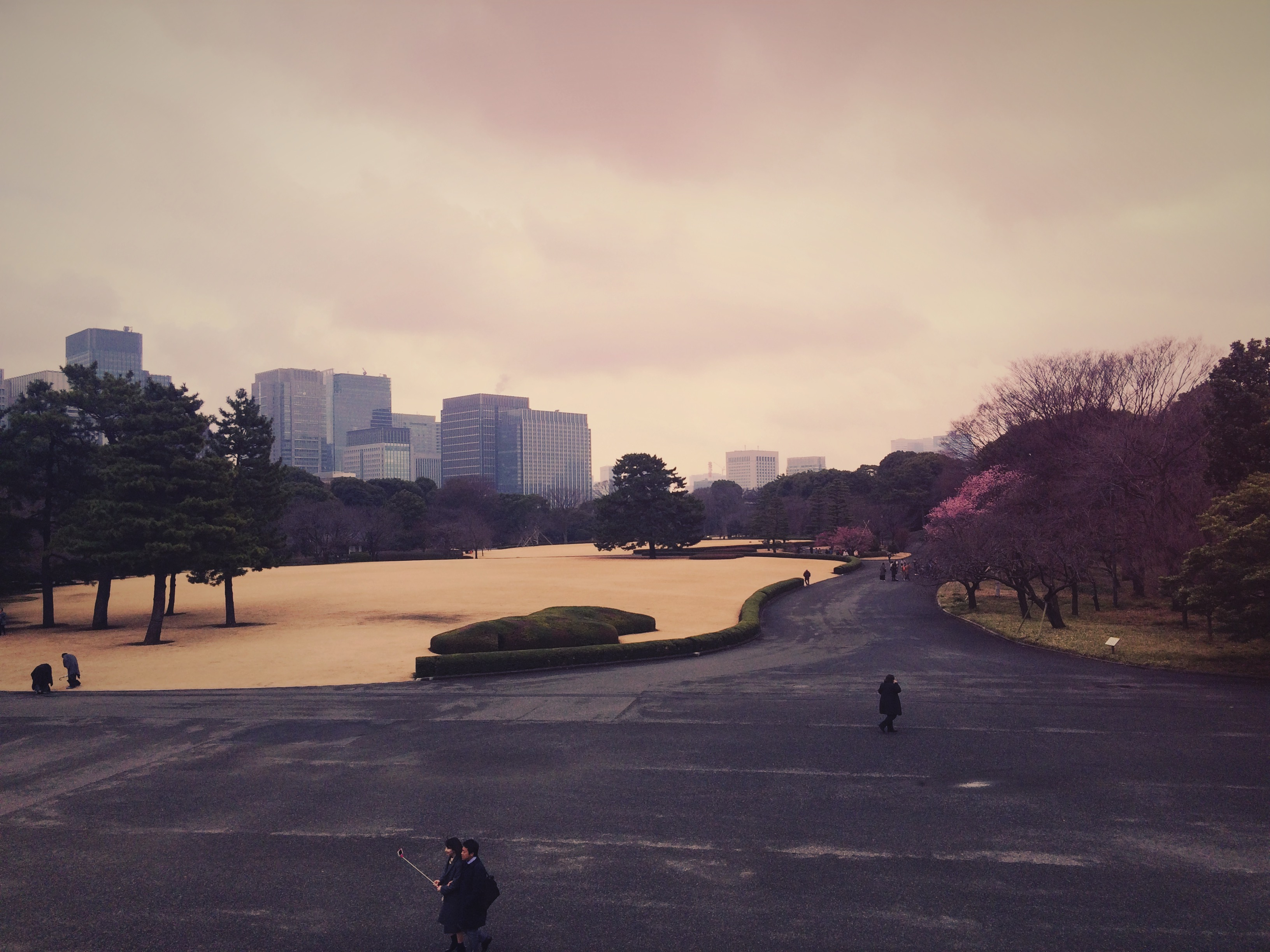 Edo castle garden